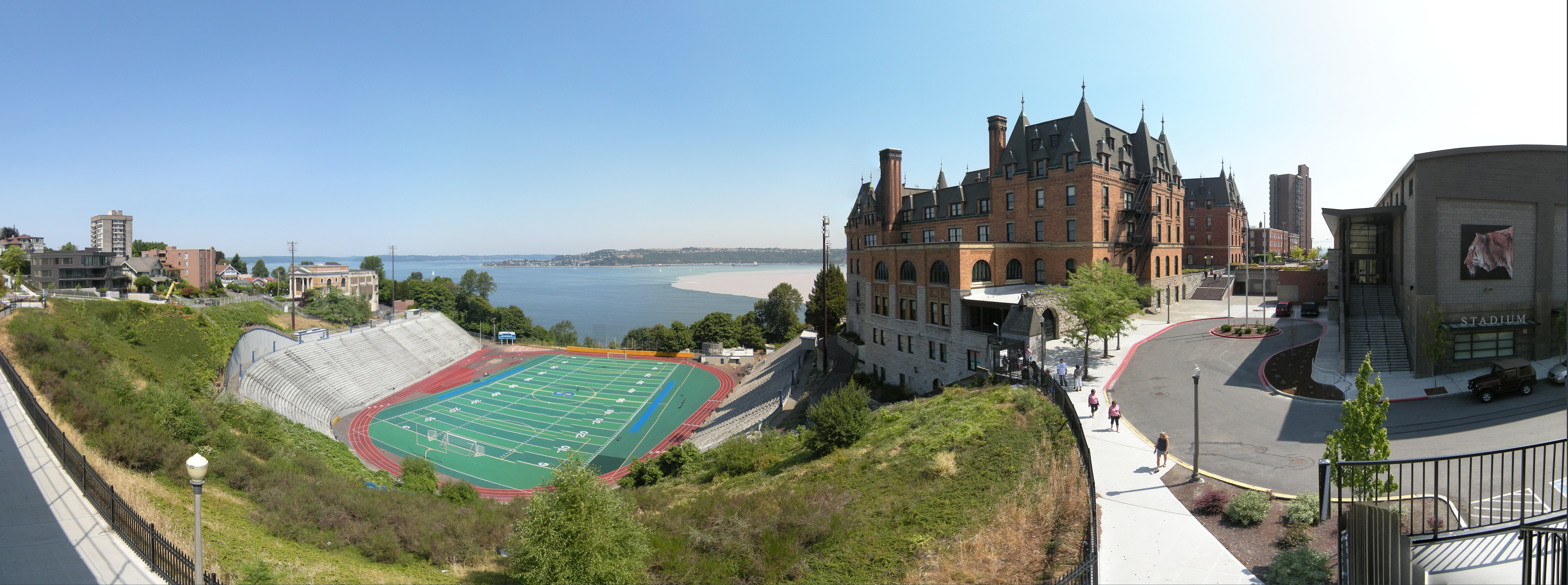 Stadium High School, Tacoma, Washington. Left of the school is the eponymous stadium and left of that the Washington State Historical Society building. Commencement Bay is in the background. This image was created with Hugin